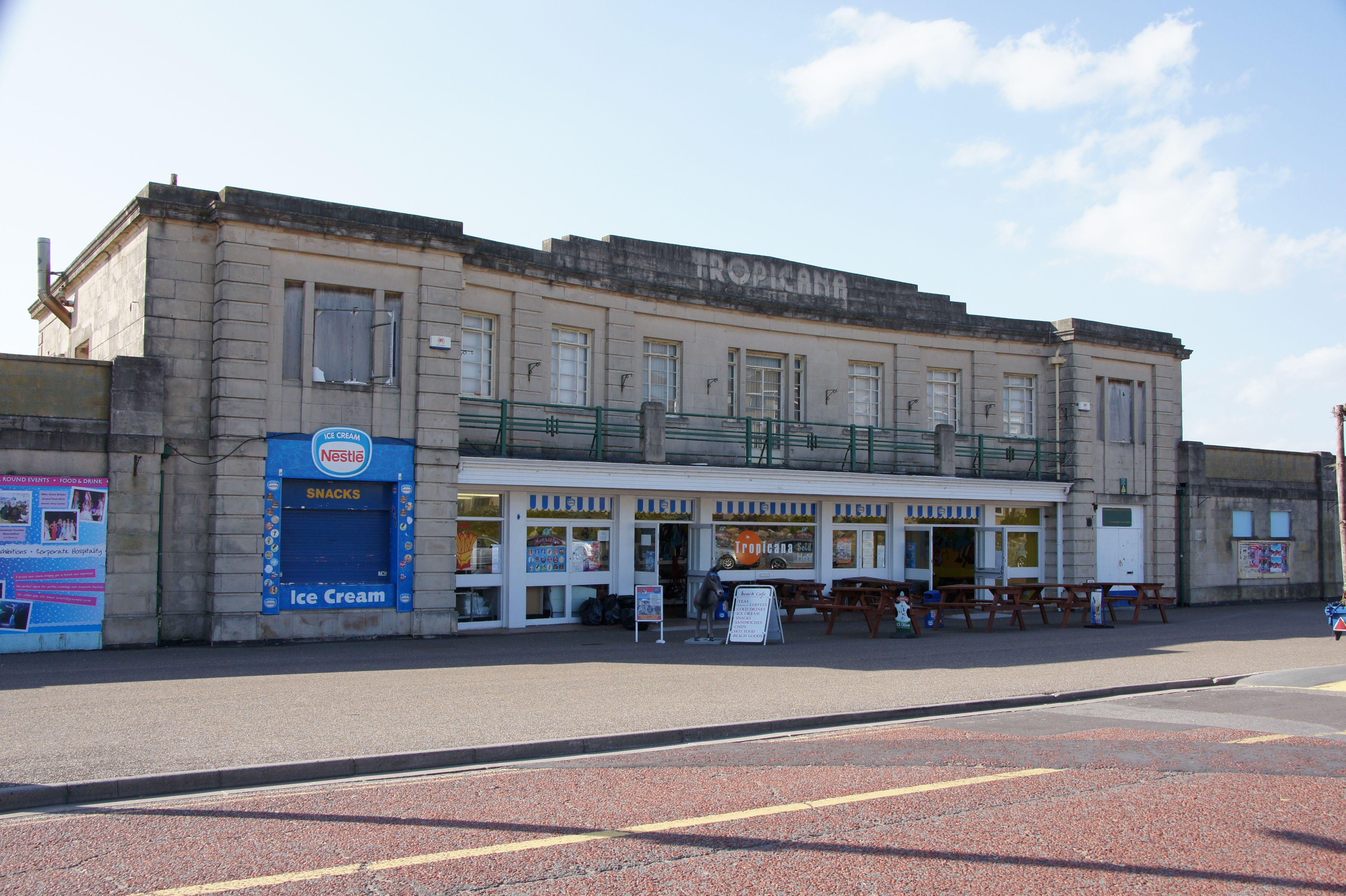 The Tropicana, Weston-super-Mare, as of February 2013, is a now-derelict open air swimming pool and lido that has been closed since 2000.